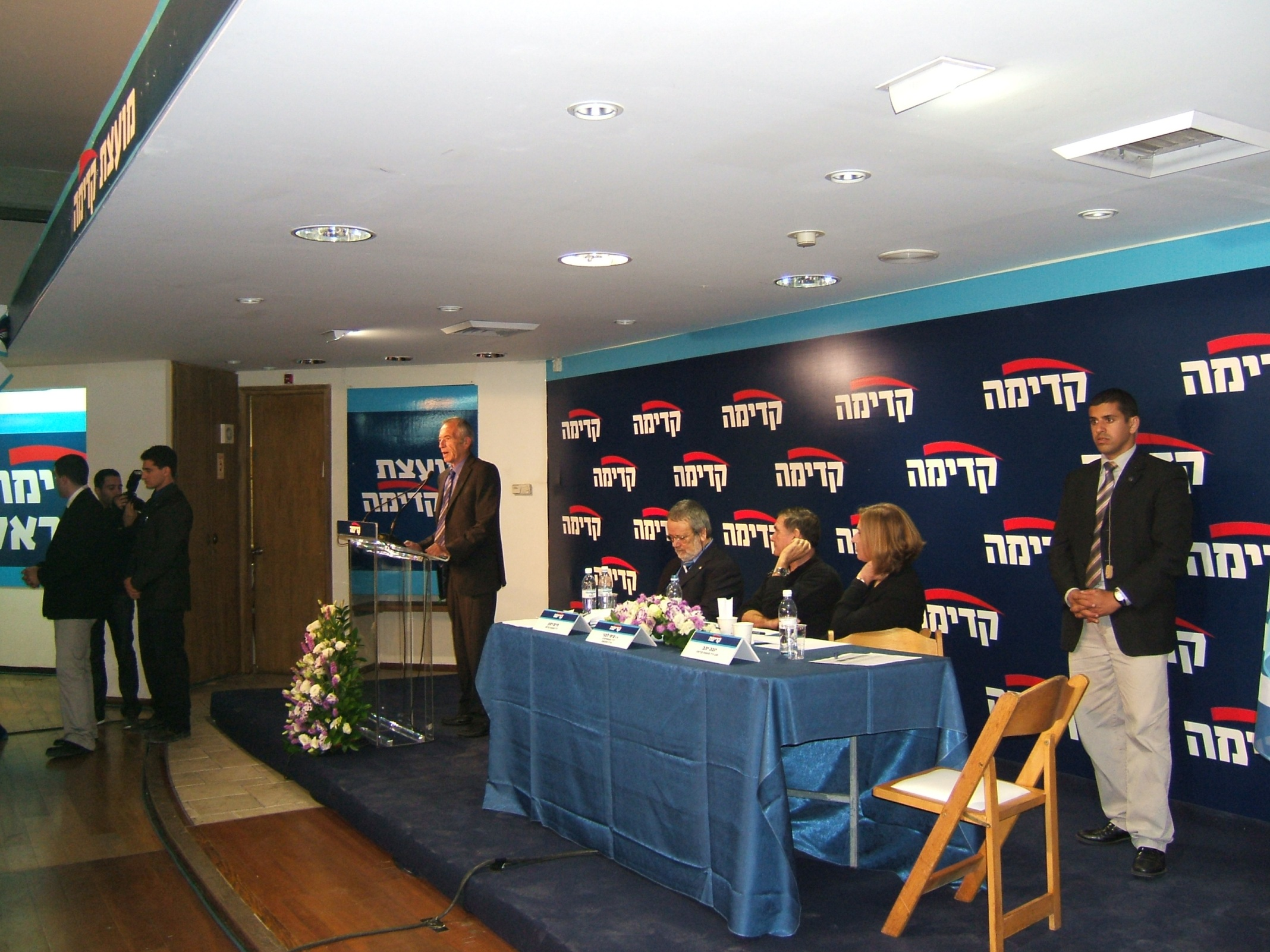 גדעון עזרא נואם במועצת קדימה בפברואר 2010